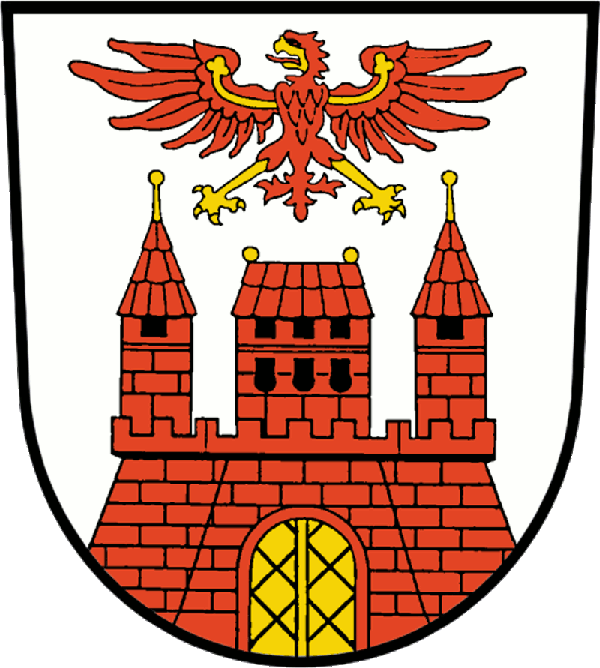 Coat of Arms of Wittenberge